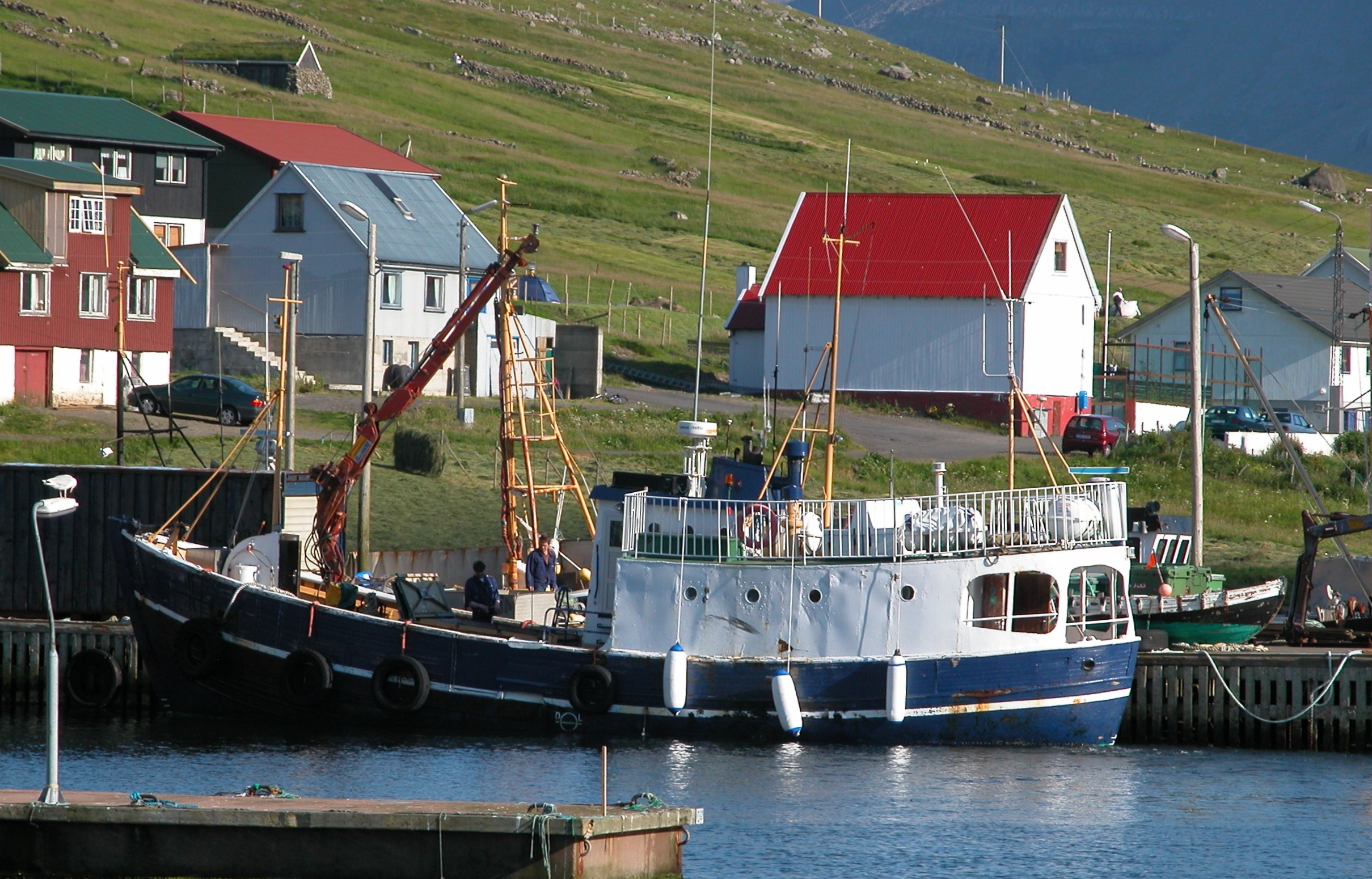 Hvannasund on Viðoy, Faroe Islands.